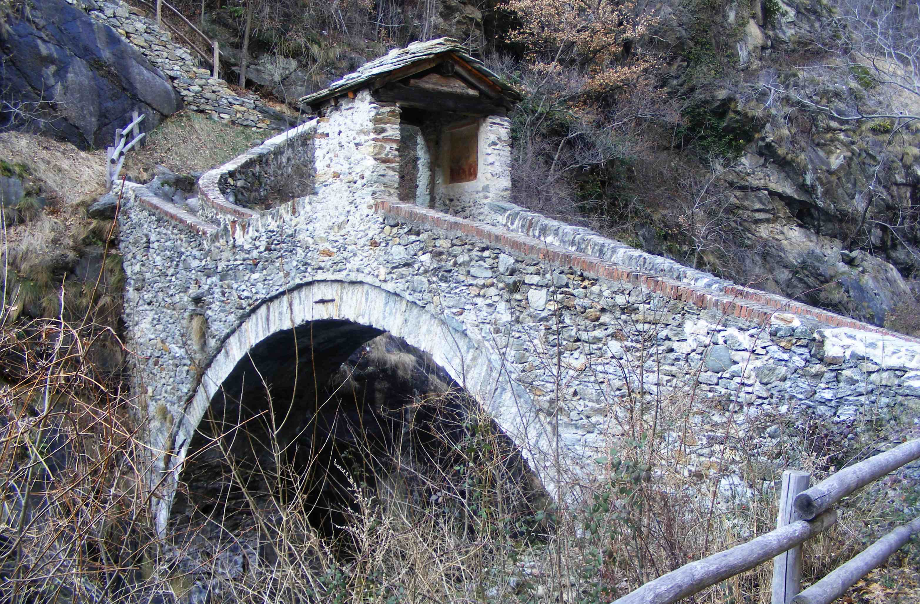 Moretta bridge (Perloz, AO, Italy)